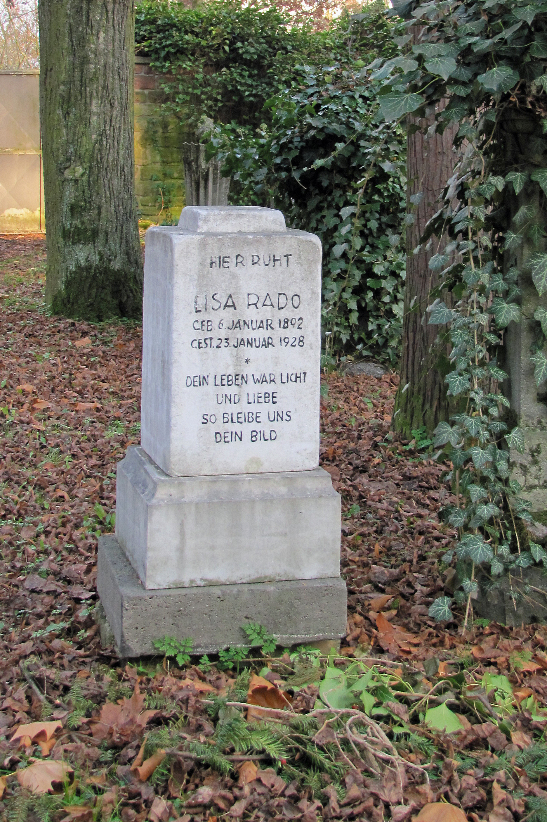 (Old) Jewish cemetery at Rat-Beil-Strasse in Frankfurt am Main, Germany. Tombstone of Lisa Rado.